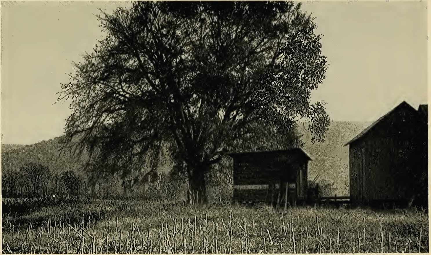 The Tiadaghton Elm in 1939, scence of the Fair Play Men's Declaration of Independence on July 4, 1776, near the confluence of the West Branch Susquehanna River and Pine Creek, west of Jersey Shore in Clinton County, Pennsylvania, USA. (The elm no longer stands, having died in the 1970s).